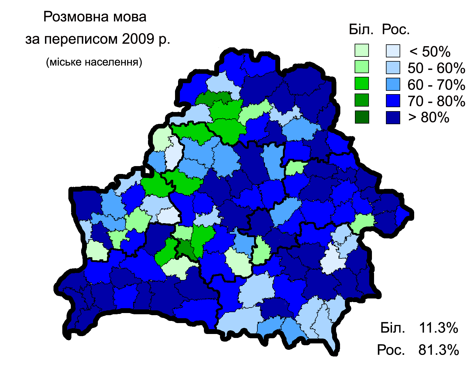 Languages spoken at home among urban population in Belarus according to the 2009 census